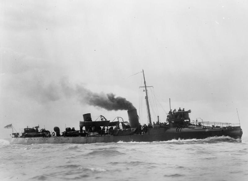 Photograph of British destroyer HMS Decoy.